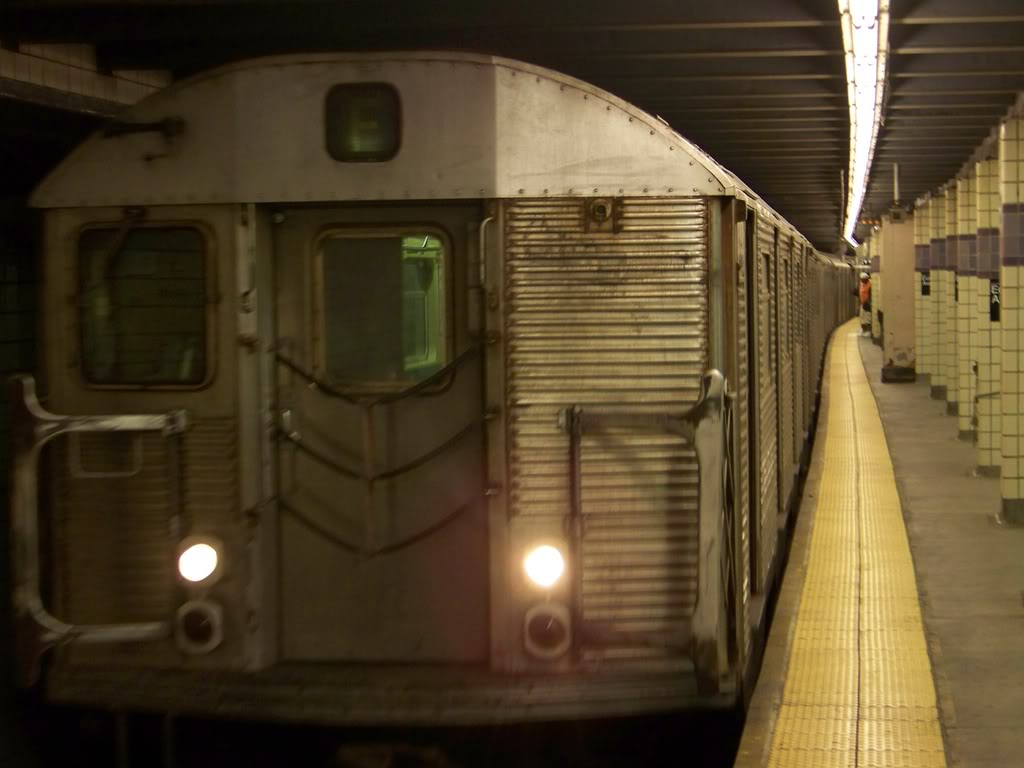 F at Euclid Ave